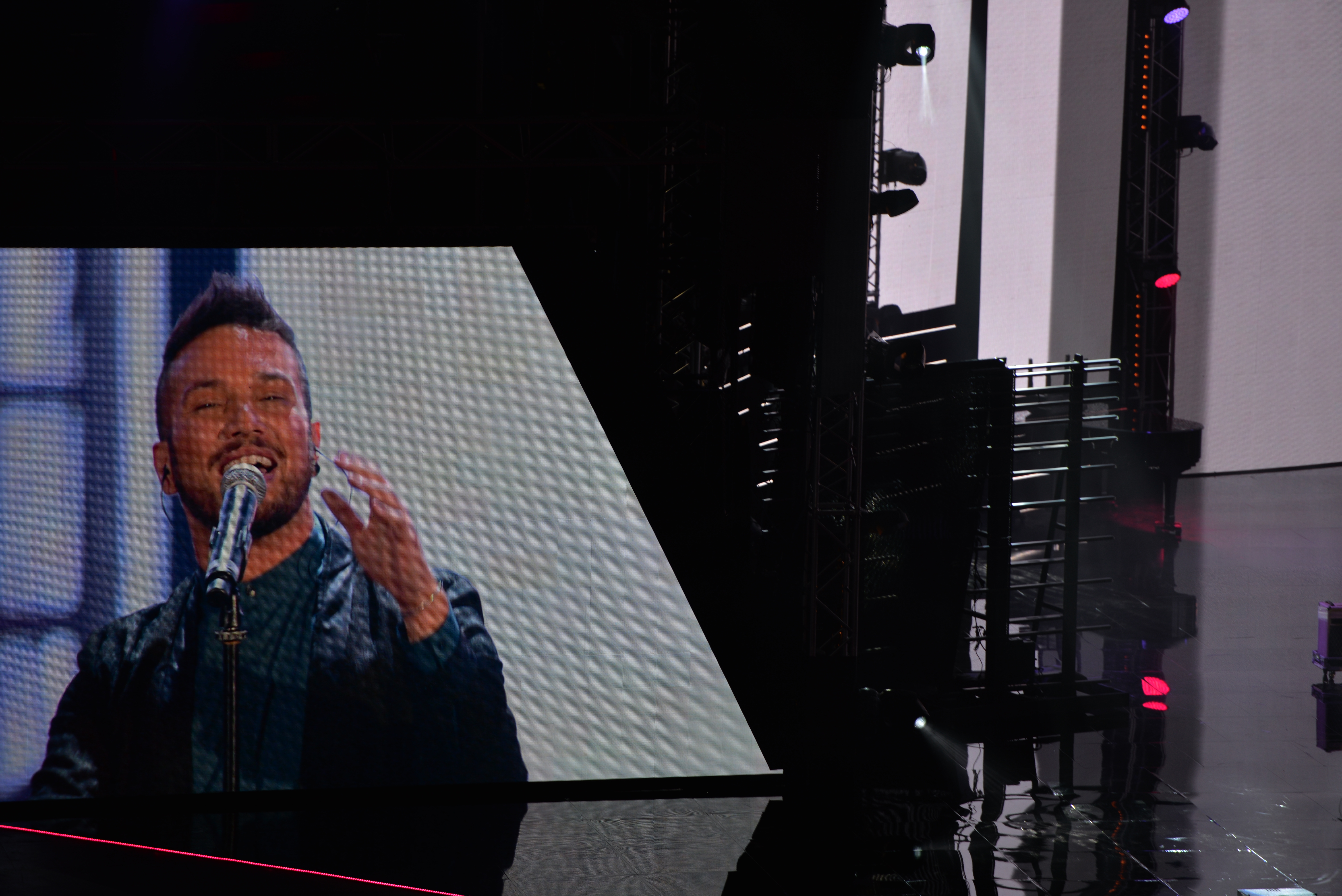 Antonino Spadaccino during the Wind Music Awards 2016 ceremony at Verona Arena